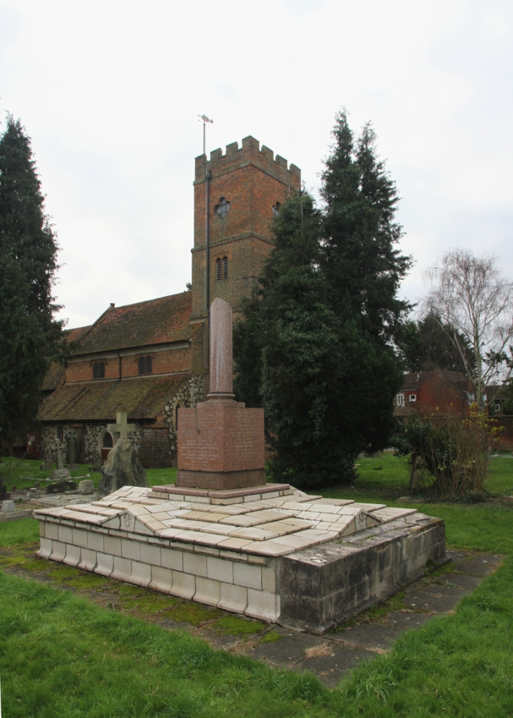 St Mary Magdalene parish church, Littleton, Middlesex: tomb of the Burbidge family of baronets. In the background is the church, with its 18th-century west tower.